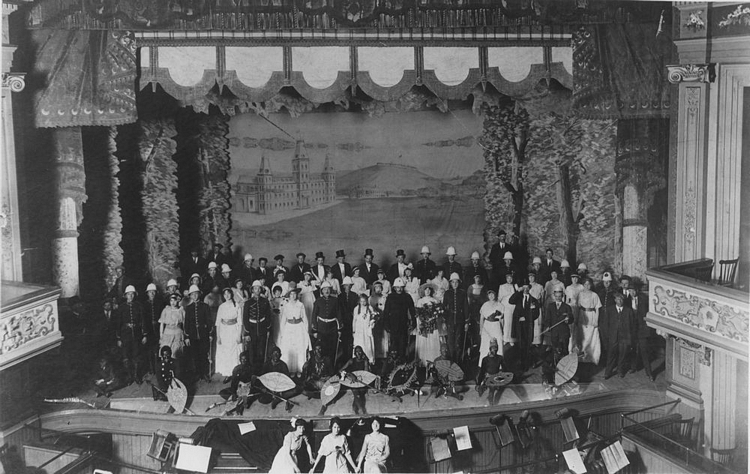 "Leo, the Royal Cadet", an opera performed at the Grand Theatre in Kingston, Ontario, Canada on June 3 to 5, 1915.